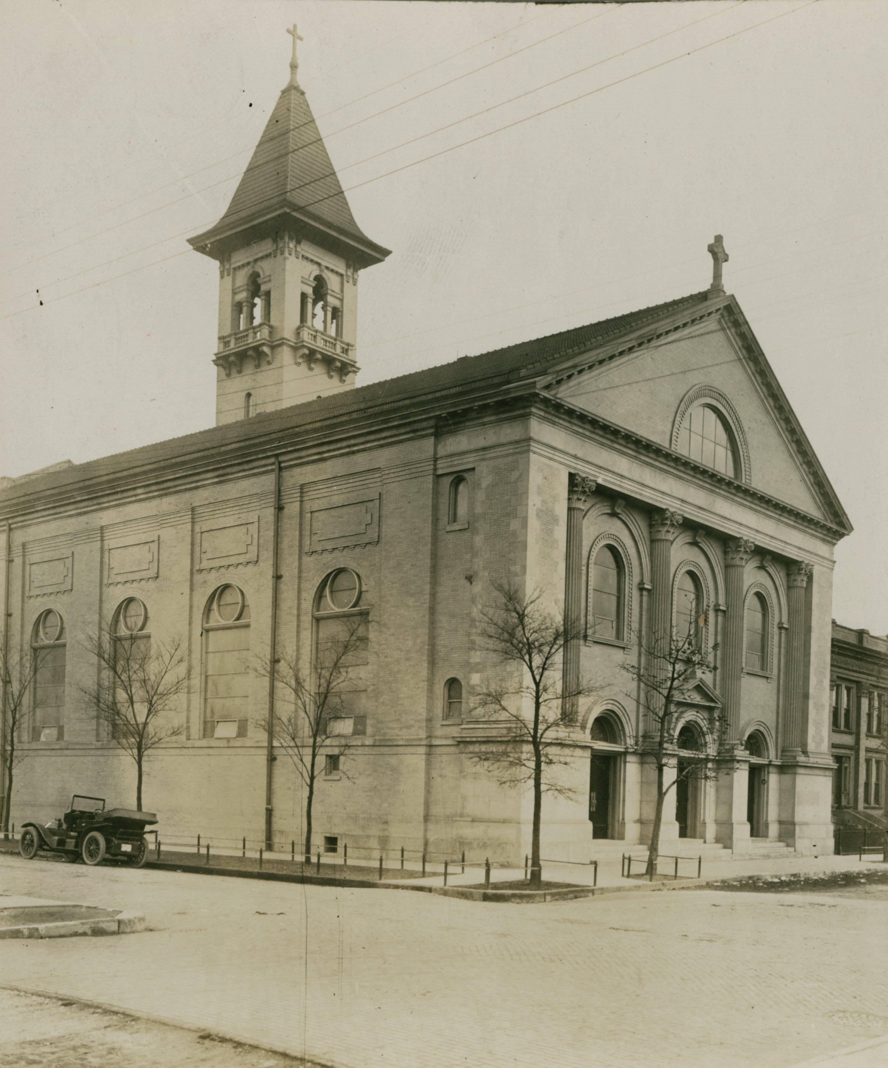 " St Cyril and Methodius at 50th-Hermitage"--Photograph verso.